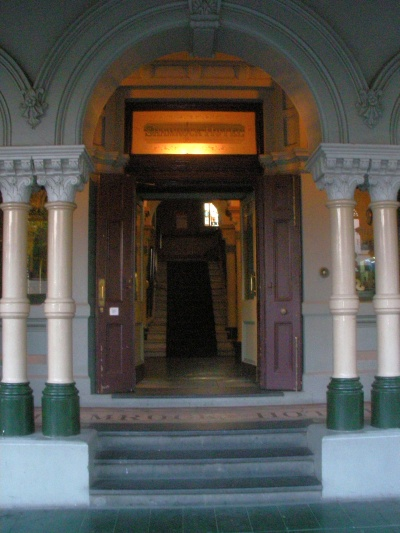 Entry of the Shamrock Hotel, Bendigo